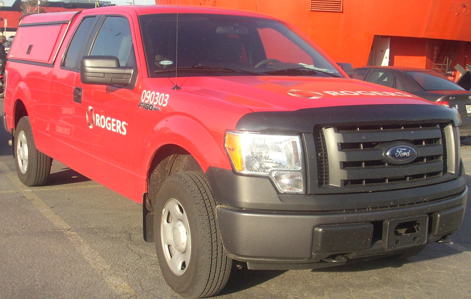 2009 Ford F-150 photographed in Montreal, Quebec, Canada at Gibeau Orange Julep.